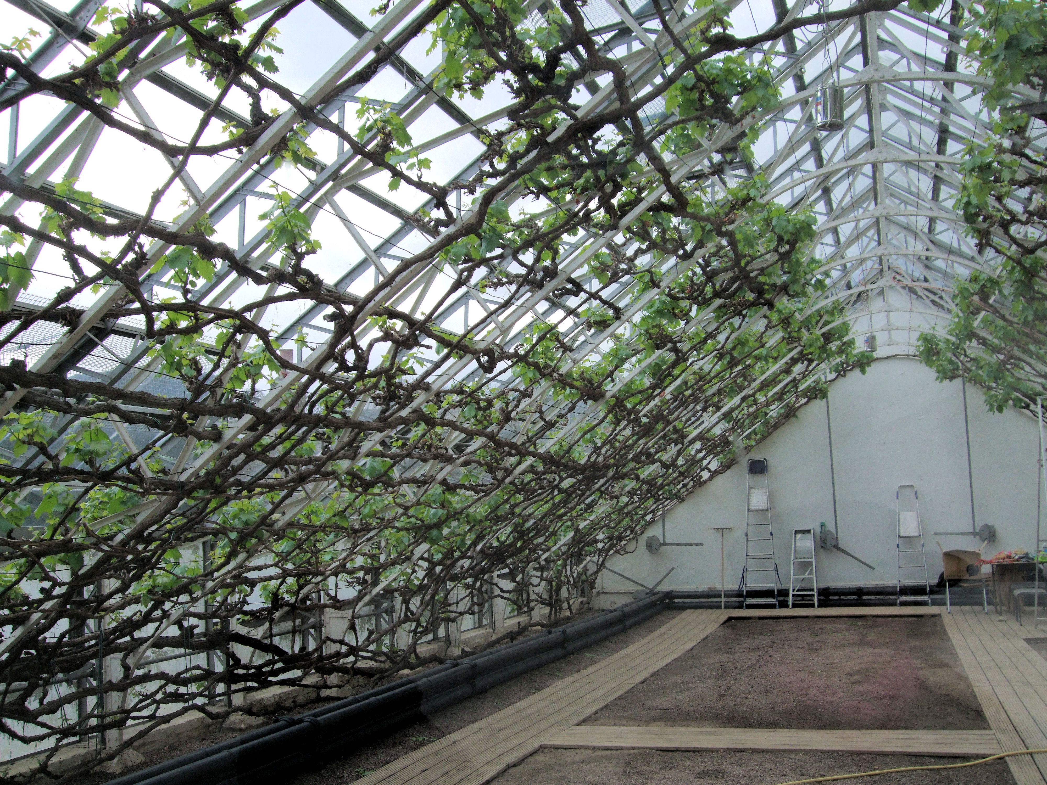 Great Vine House Hampton Court London